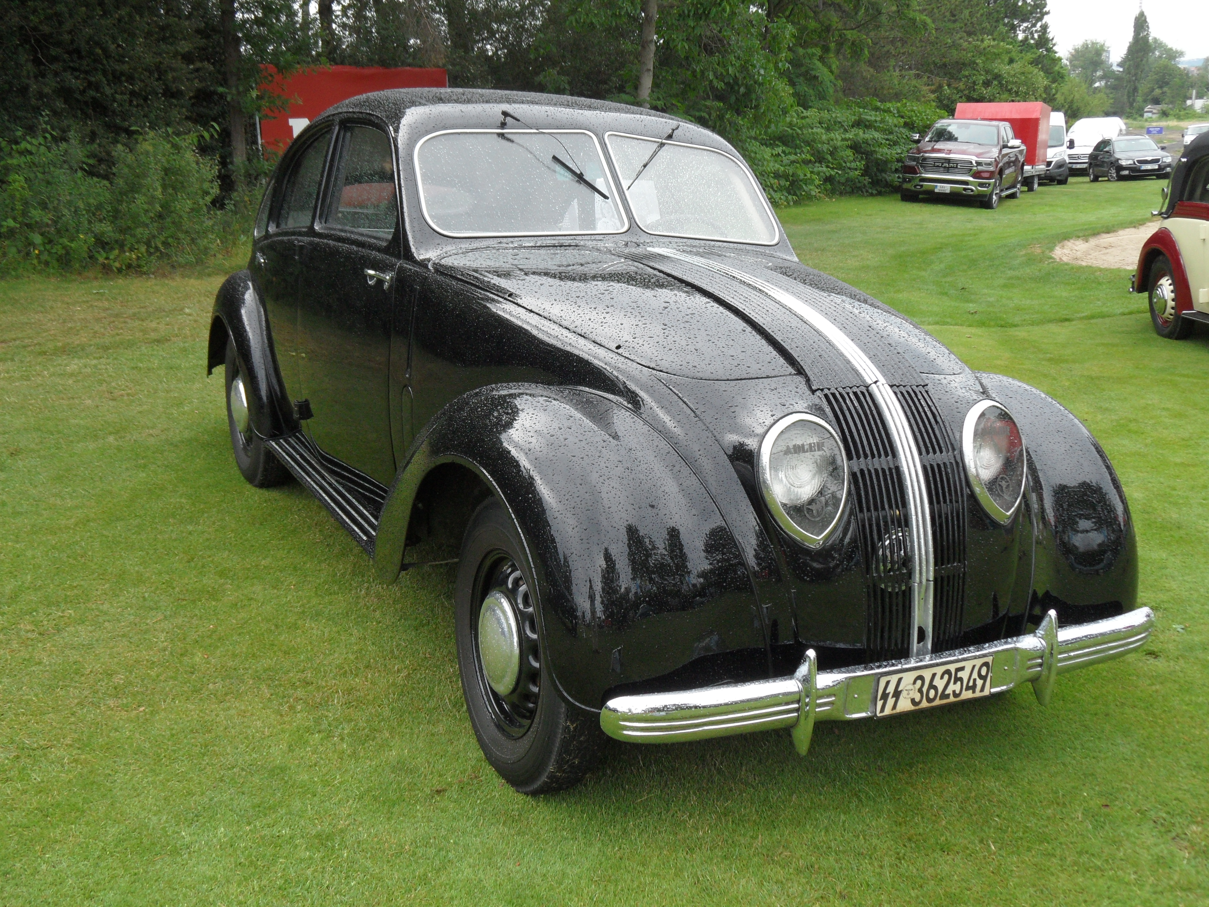 Exhibition Automobilové klenoty 2019. A. Cars from Films: Adler, 1939: movie Lidice. Prague, the Czech Republic.